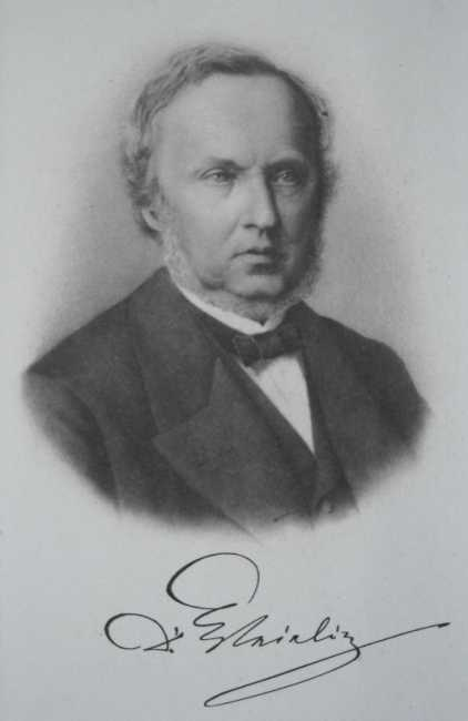 Albert Christian Weinlig (born 9 April 1812; died 8 January 1873), german politician an secretary